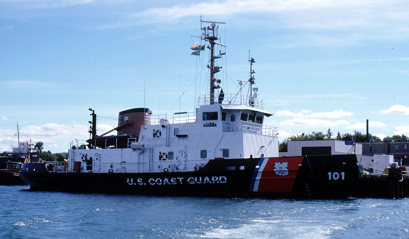 SAULT SAINT MARIE, Mich. (Sept. 15)--The Coast Guard Cutter Katmai Bay (WTGB 101) is tied to the pier at Group Sault Saint Marie, Michigan.